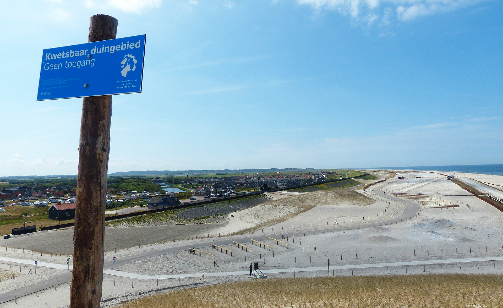 Reconstructed Hondsbossche Zeewering, protecting the Noord-Holland coast between Kamperduin and Petten.